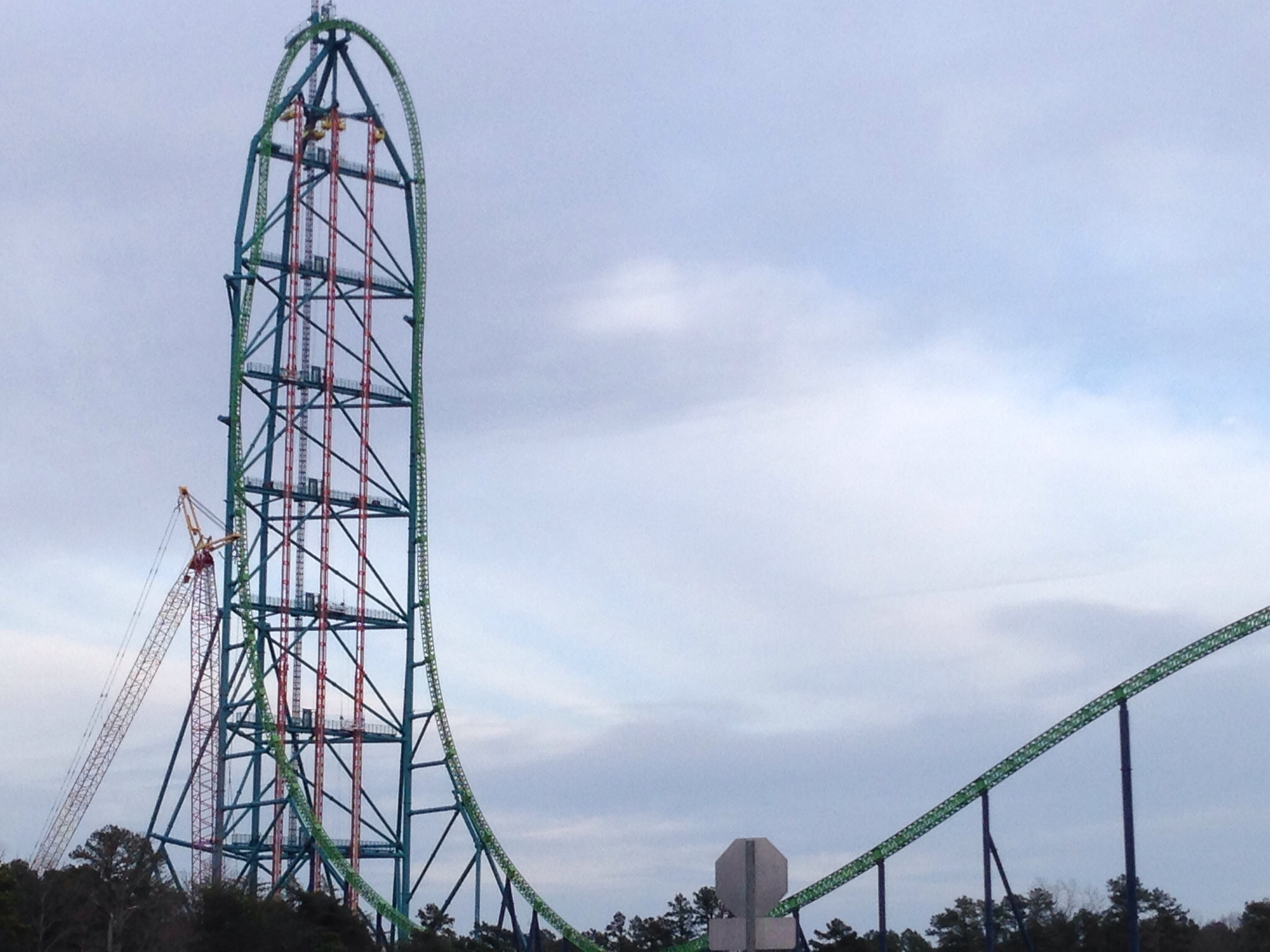 Zoomanjaro - Drop or Doom - Under construction - April 14, 2014 (Photo captured by Mariano. A)